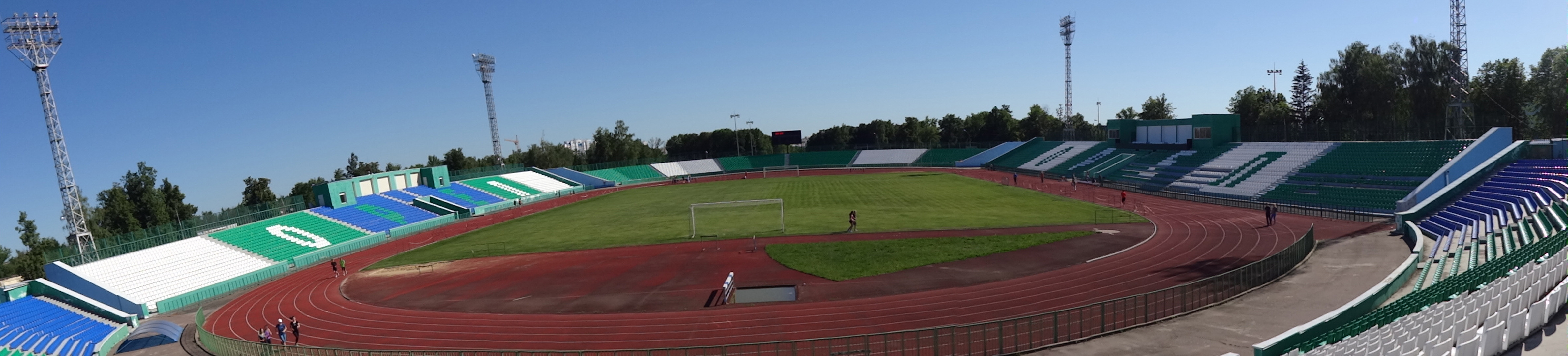 The Central Stadium of Oryol. Panorama.